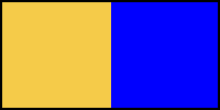 MS Paint image to show GAA colours